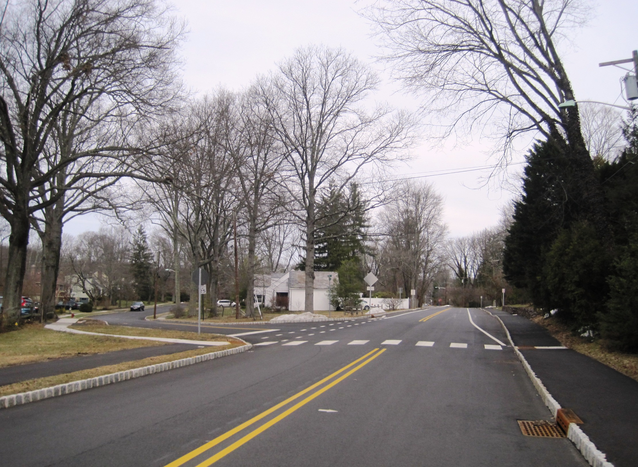 Photo of Princeton North, New Jersey, an unincorporated community (and former census designated place) within Princeton, Mercer County. Photo taken along northbound Mount Lucas Road at Laurel Road.